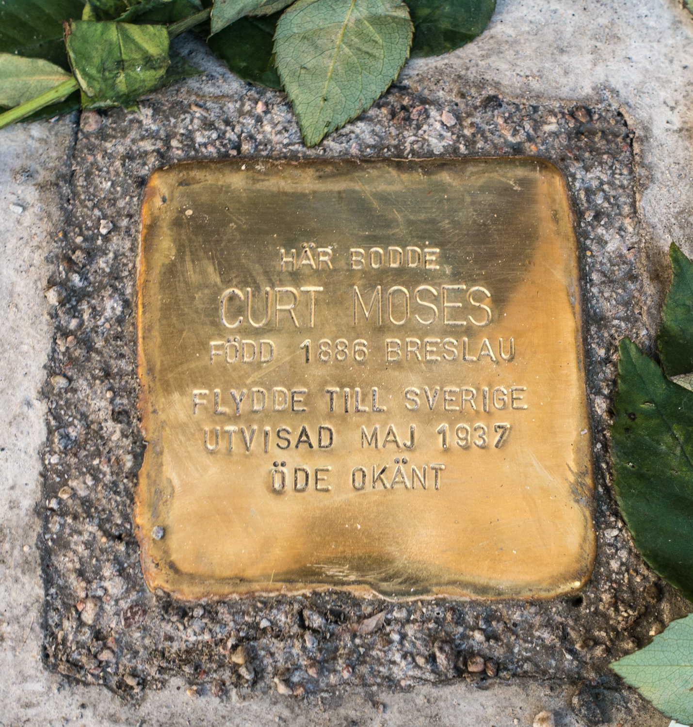 The Stolperstein were laid on June 14, 2019. At Kungsholmstorg 6, a stone in memory of Erich Holewa was expelled in 1938 and deported to Auschwitz in 1942 where he was killed. On Apelbergsgatan 36, a stone was placed in memory of Hans Eduard Szybilski. He was expelled in 1939 and deported from Berlin to Auschwitz in 1943. At Gumshornsgatan 6, a stumbling block was placed in memory of Curt Moses, which was expelled in 1937 and which was probably killed in Riga in 1941.